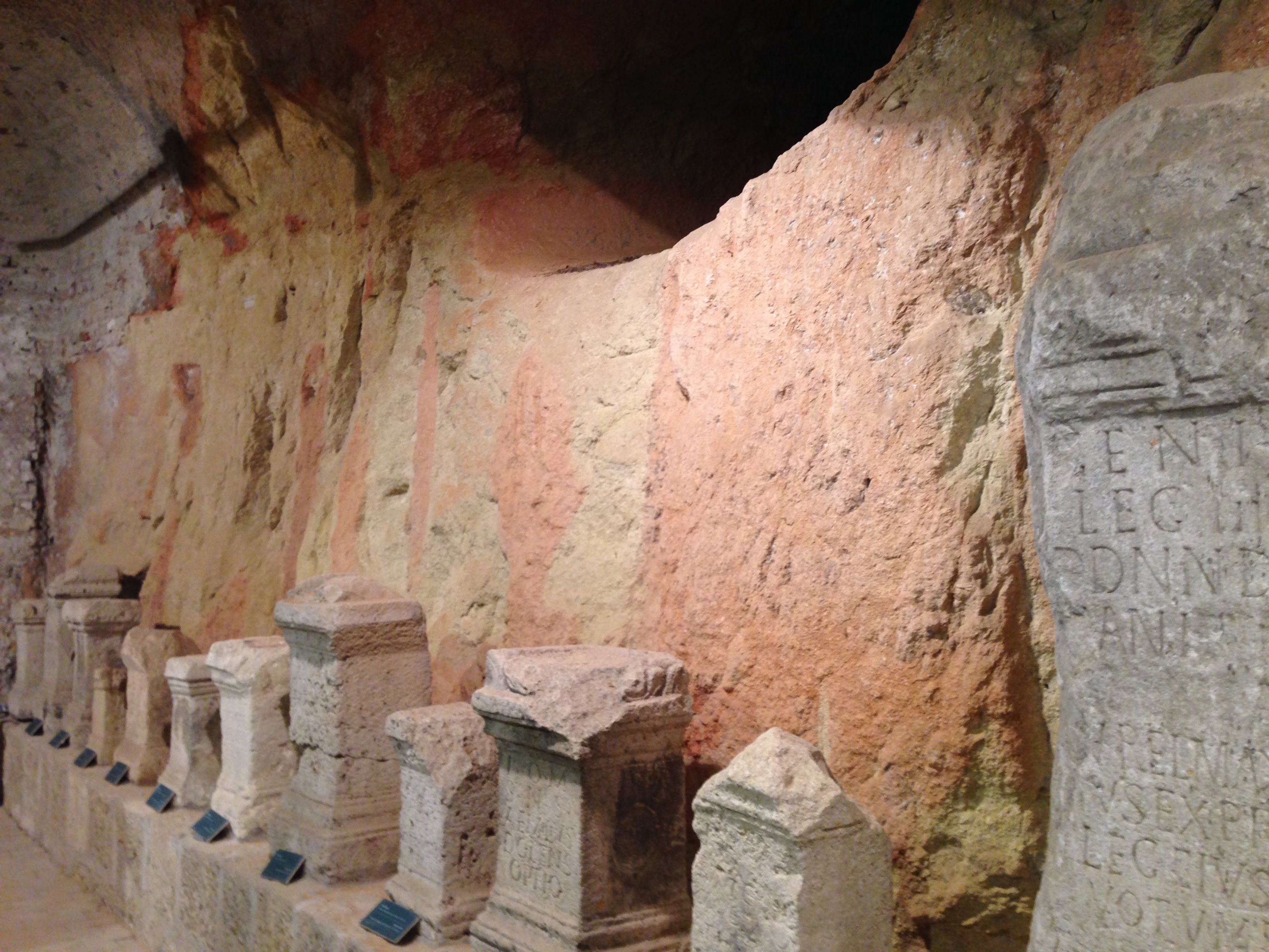 Lapidarium Big Barutana Belgrade Fortress. 2018.